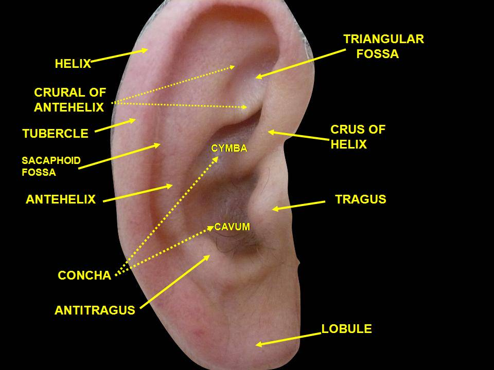 Anatomical dissections